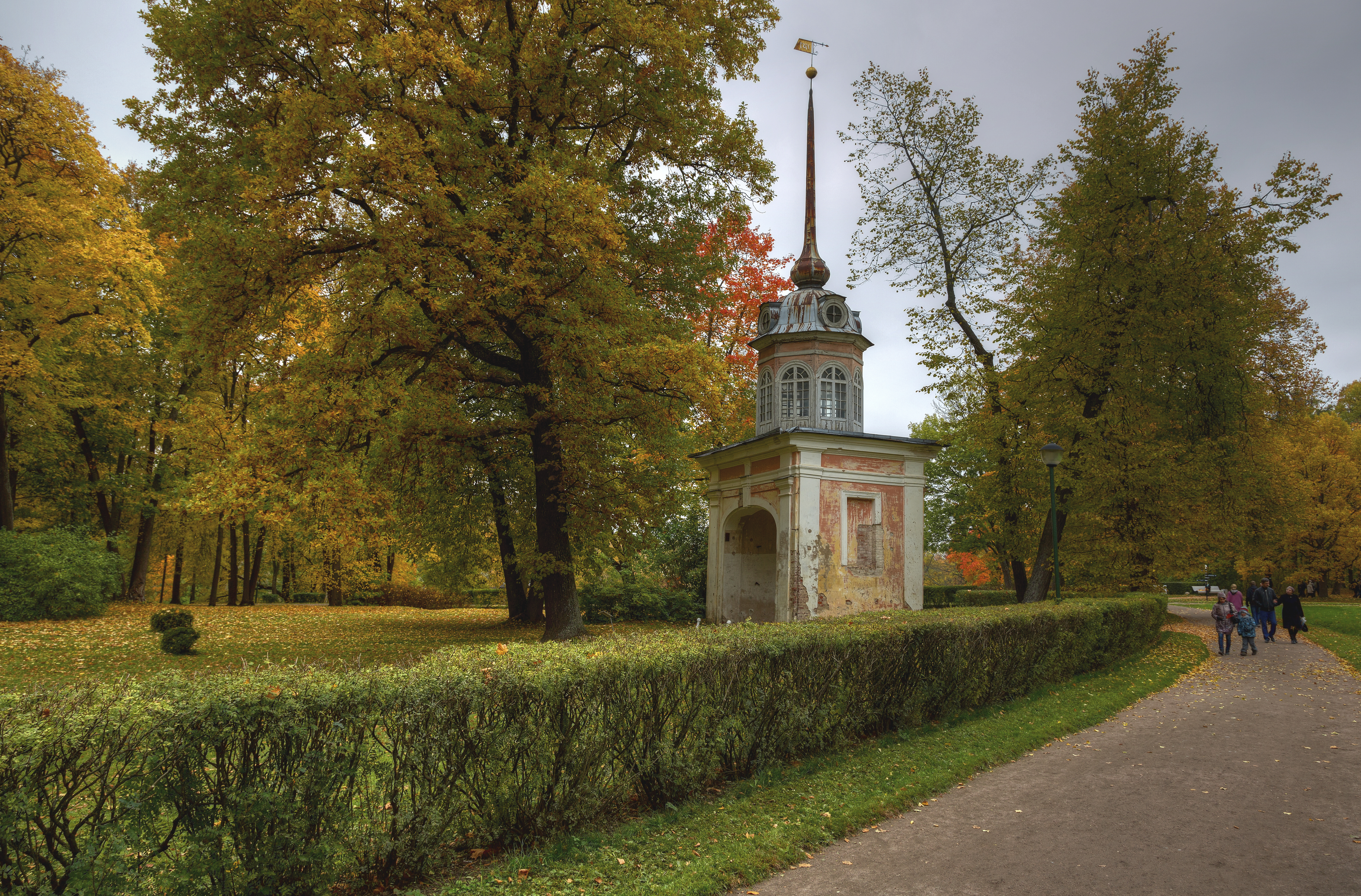 Gates of the palace of Peter III in Oranienbaum